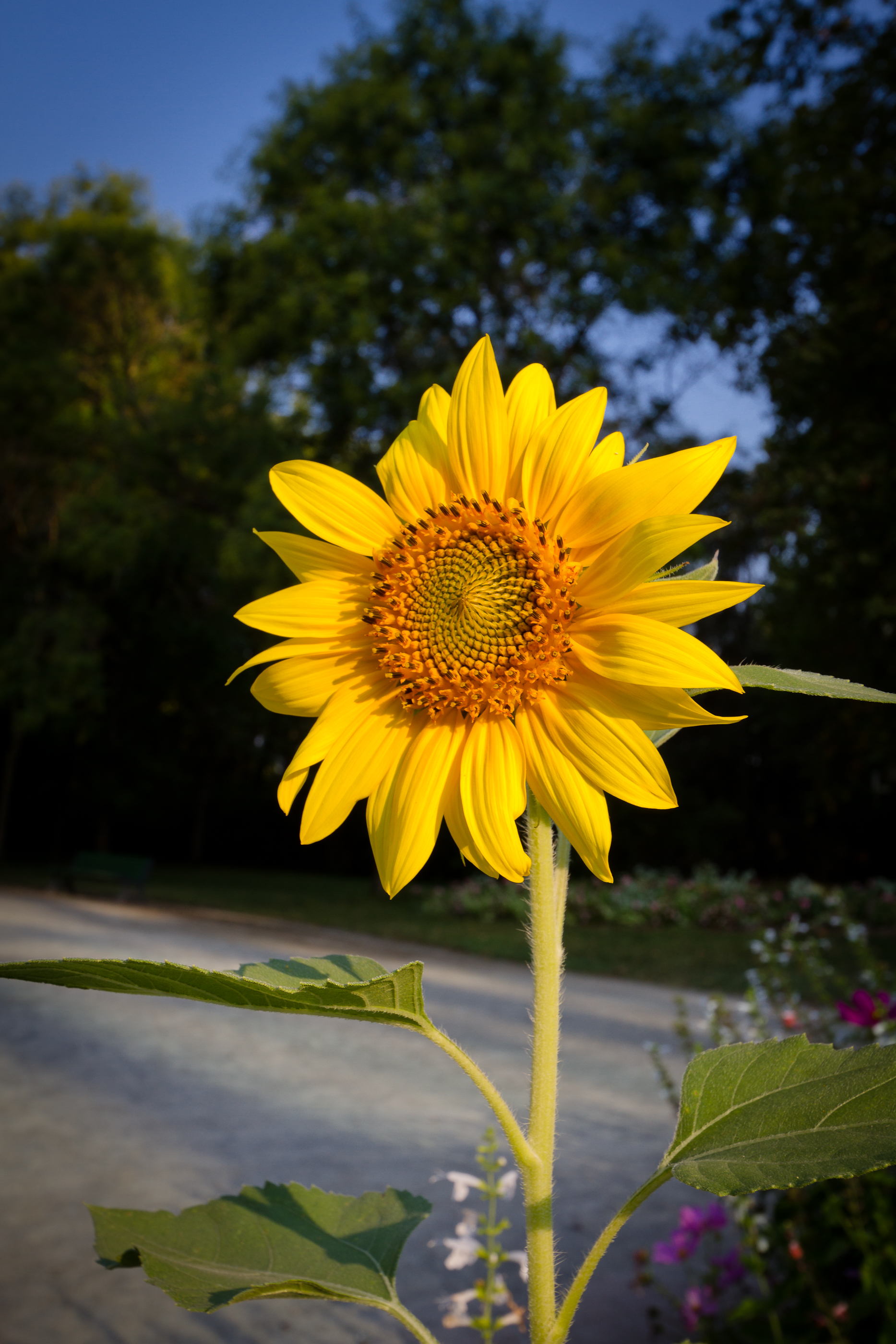 Sunflower (Helianthus annuus) in garden of Compans district in Toulouse.